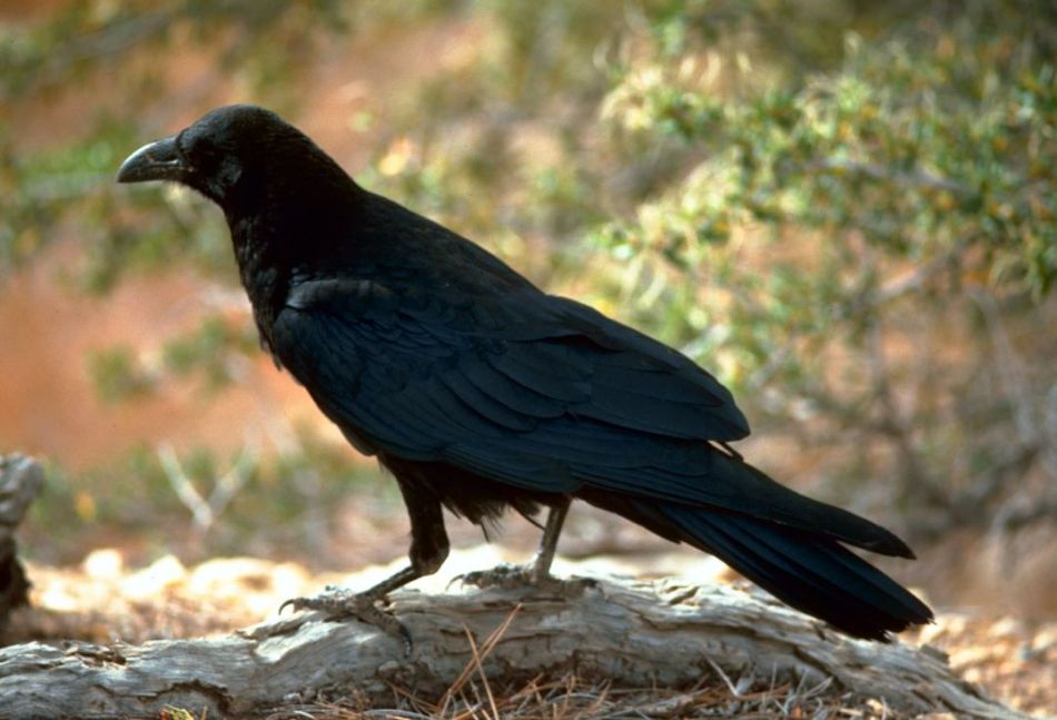 Raven (Corvus corax) in Utah, United States